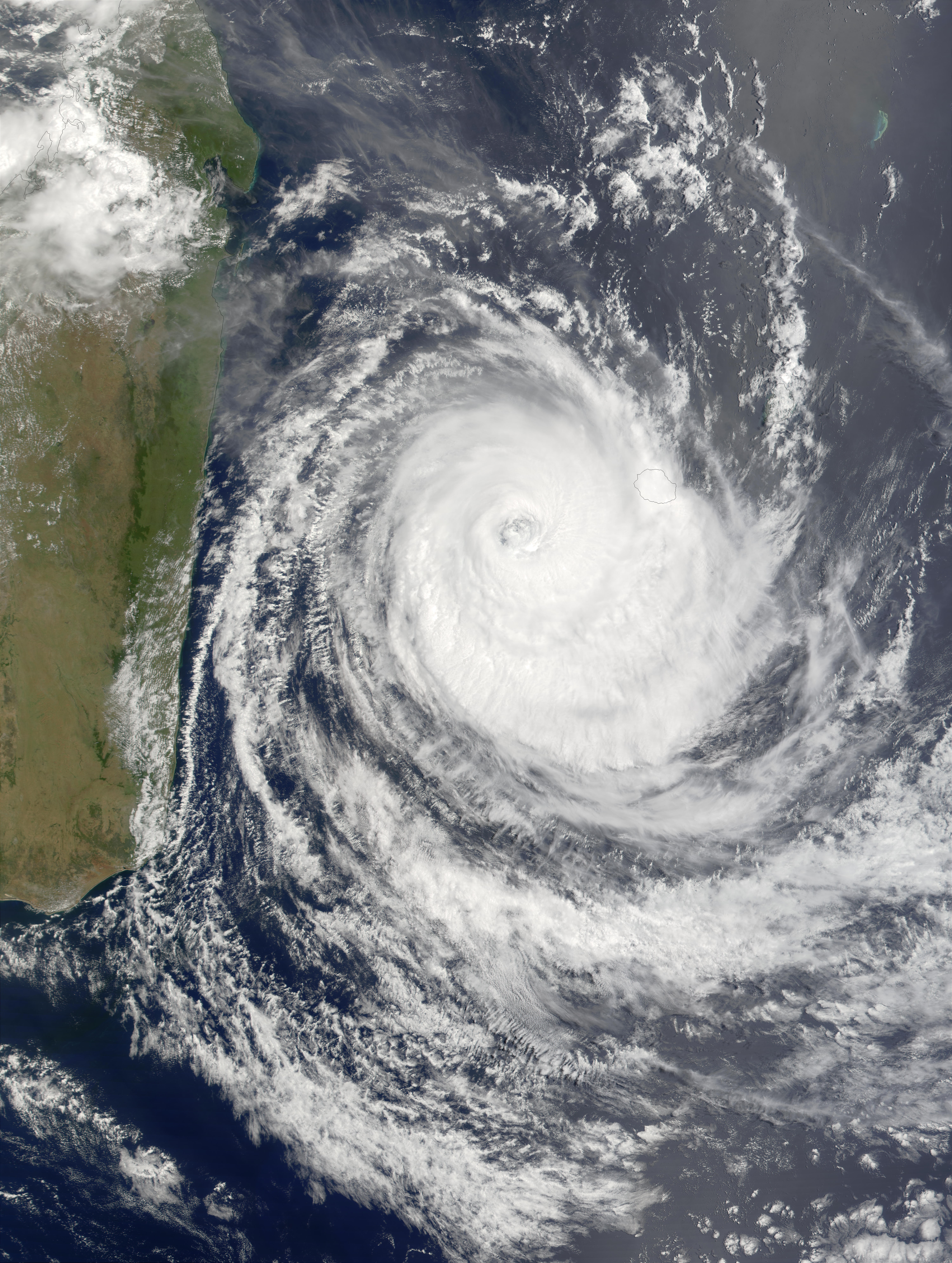 Maximum sustained winds in Cyclone Dina had dropped to about 130 miles per hour as of Wednesday morning, January 23, 2002, and were predicted to continue dropping as the storm pursued a west-southwestward track that will likely shift more toward the south, keeping the center of the storm away from the island of Madagascar. In this true-color MODIS image made from data acquired on the morning of January 23, the storm had cleared Mauritius (eastern-most island) but was still covering Riunion. The outer bands of clouds were skirting the southeast coast of Madagascar.